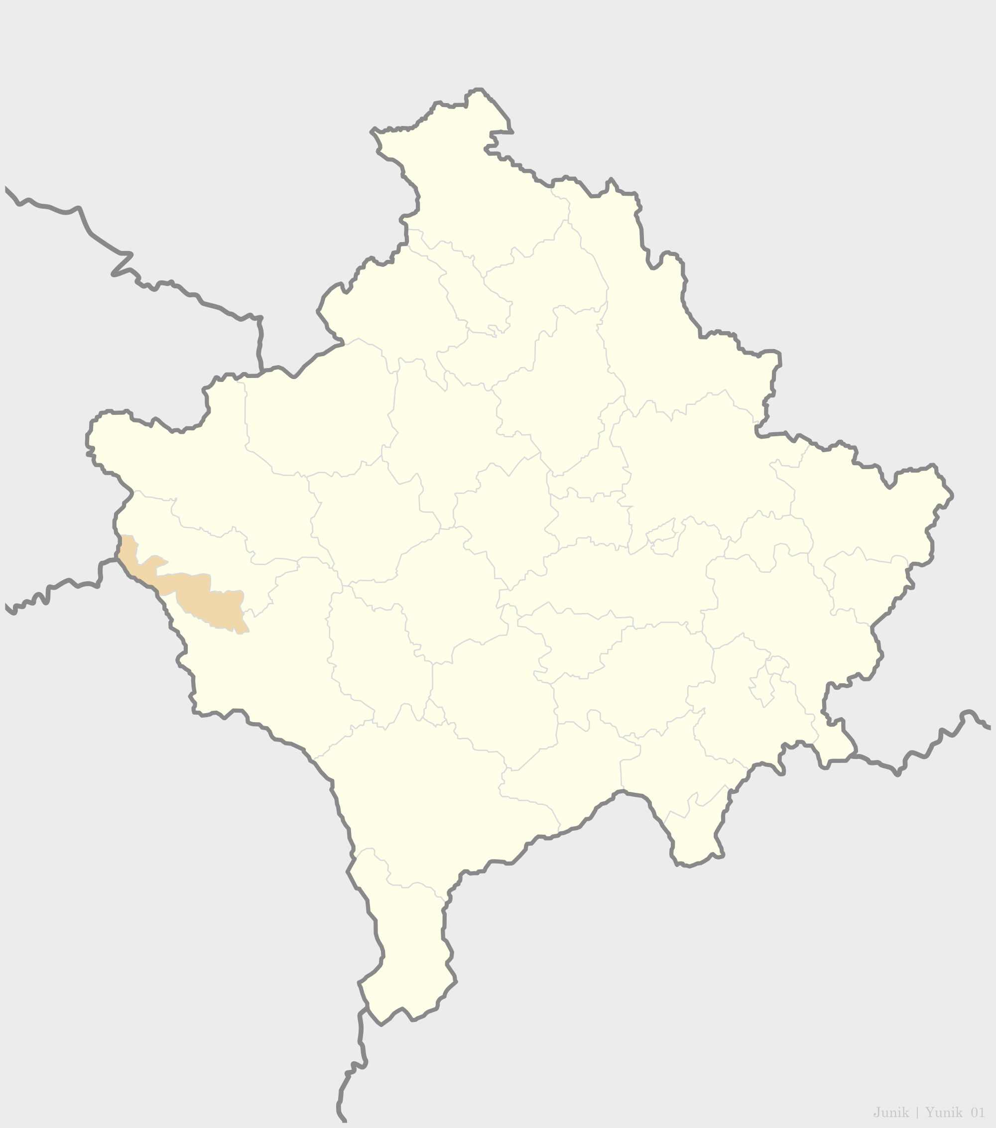 Municipality of Junik map